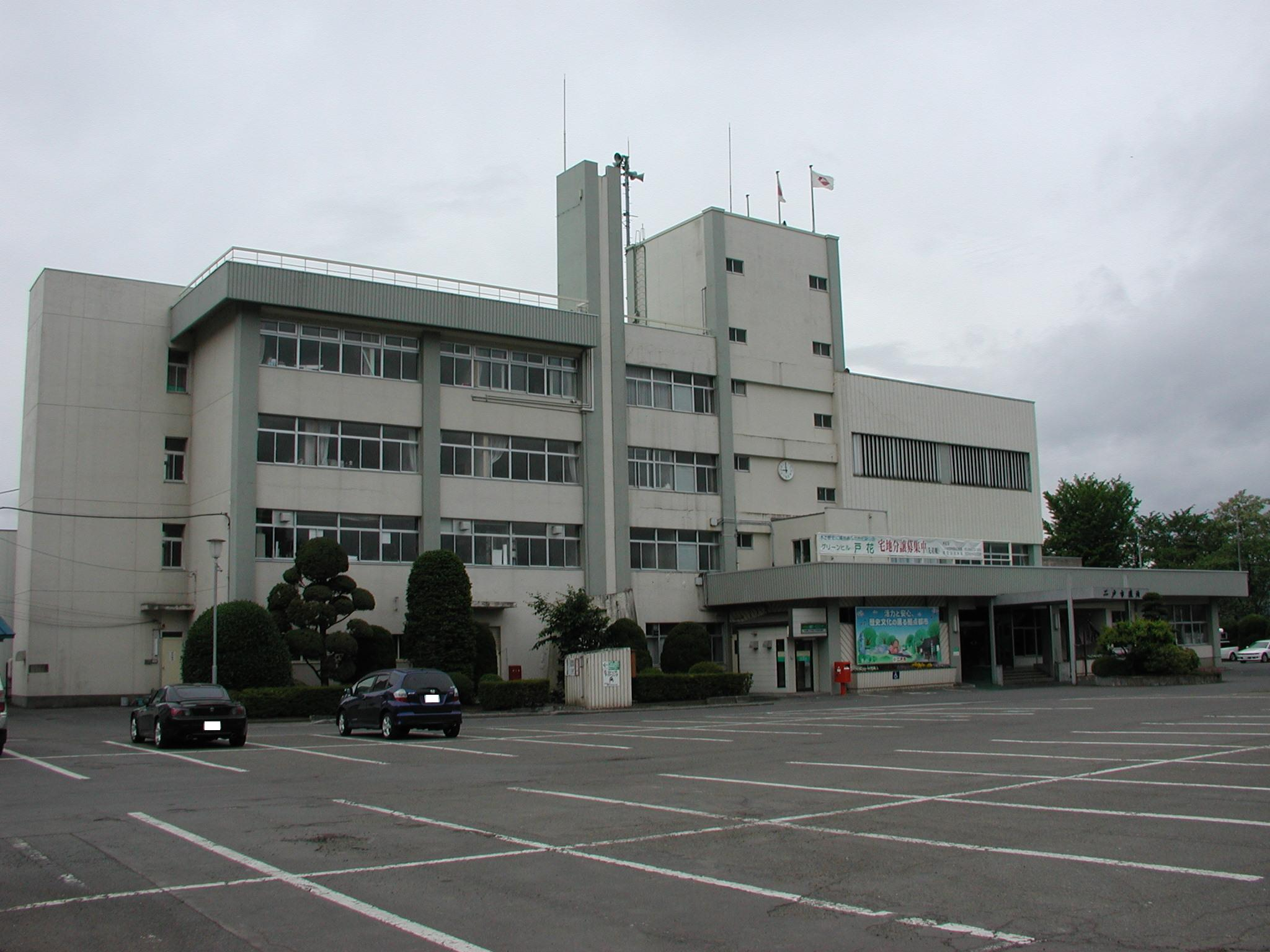 Ninohe City Office Iwate Japan